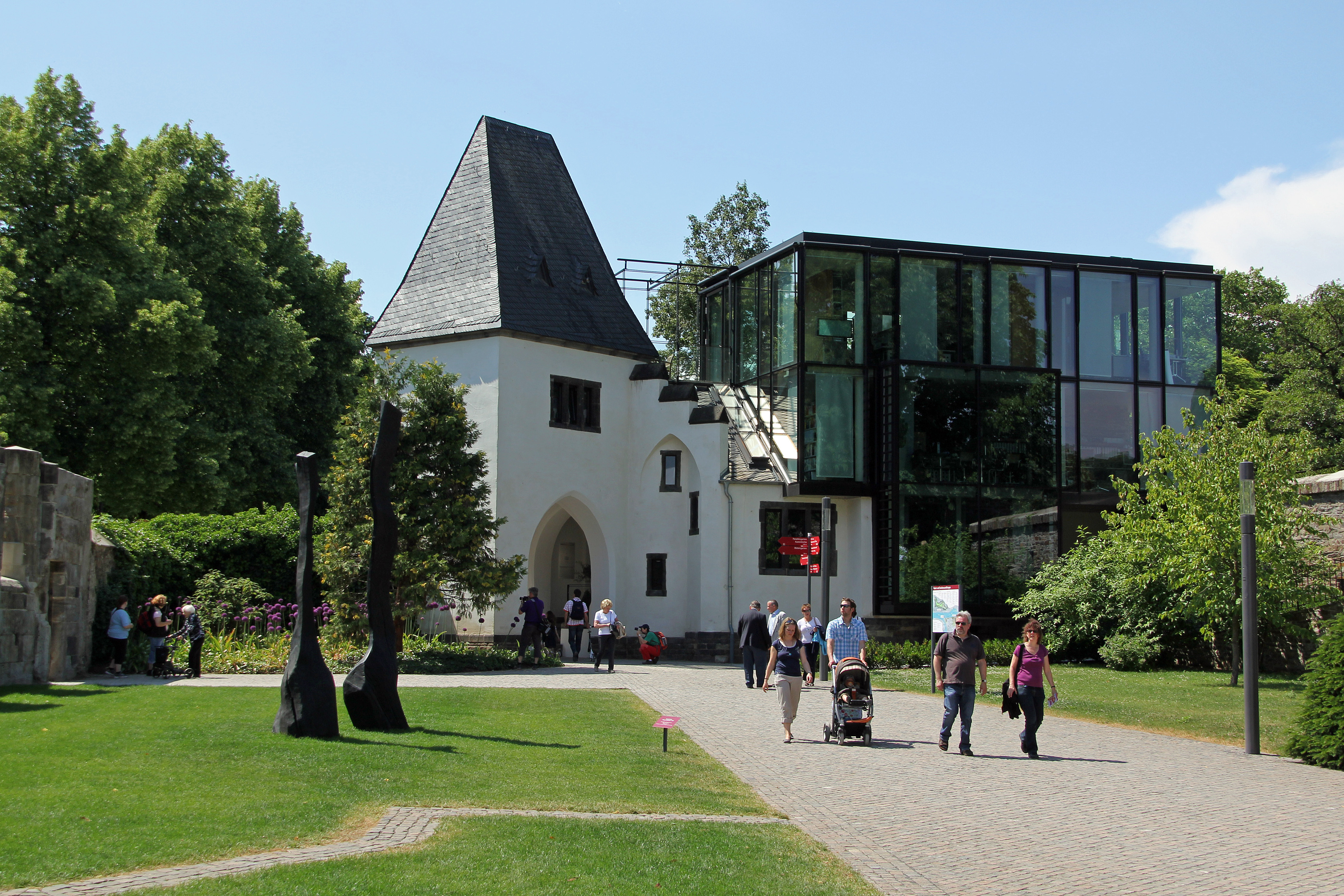 Federal Horticultural Show 2011 in Koblenz - Blumenhof at Deutsches Eck